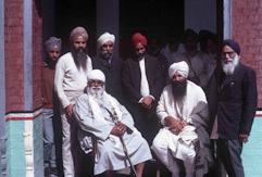 This is a photo of Yogi Bhajan with SGPC President Sant Fateh Singh and SGPC Secretary Giani Mohinder Singh in Amritsar 1971.